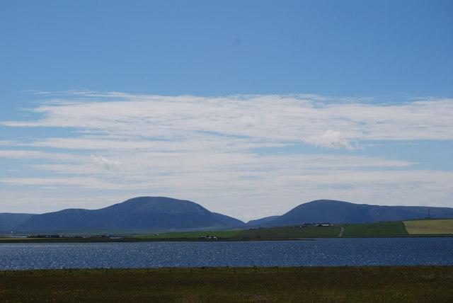 Over Loch of Stenness towards Hoy Taken from the ring of Brodgar